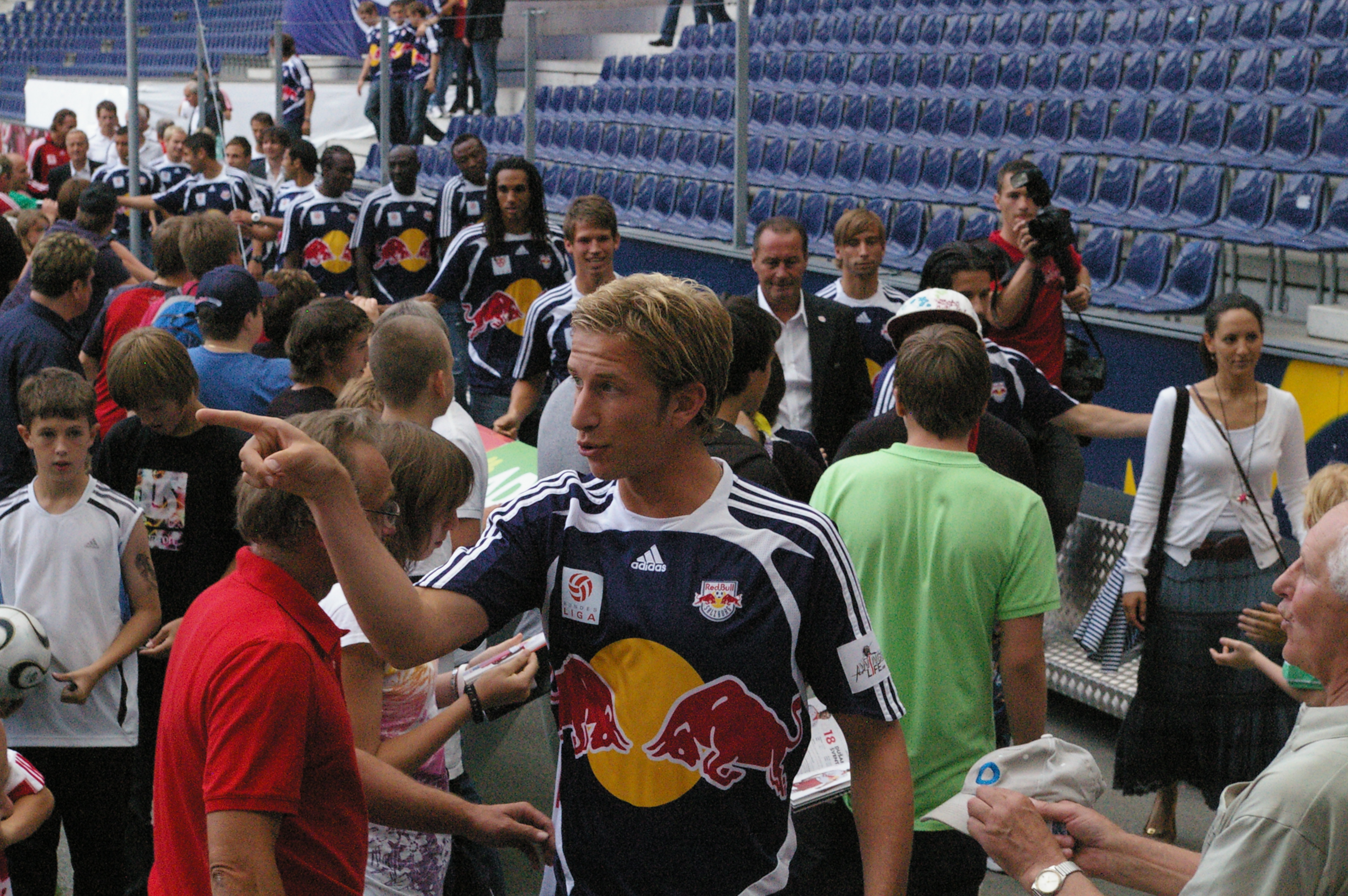 Mark Janko,striker of Red Bull Salzburg